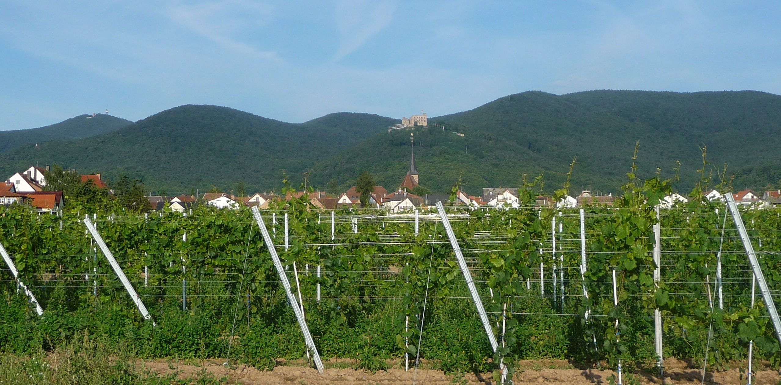 Diedesfeld